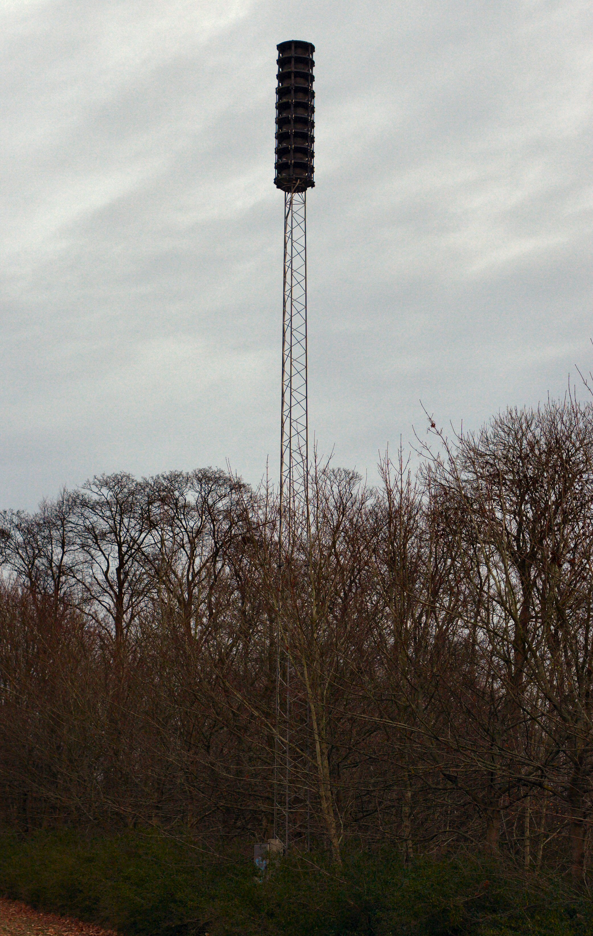 Warning siren in Århus, Denmark